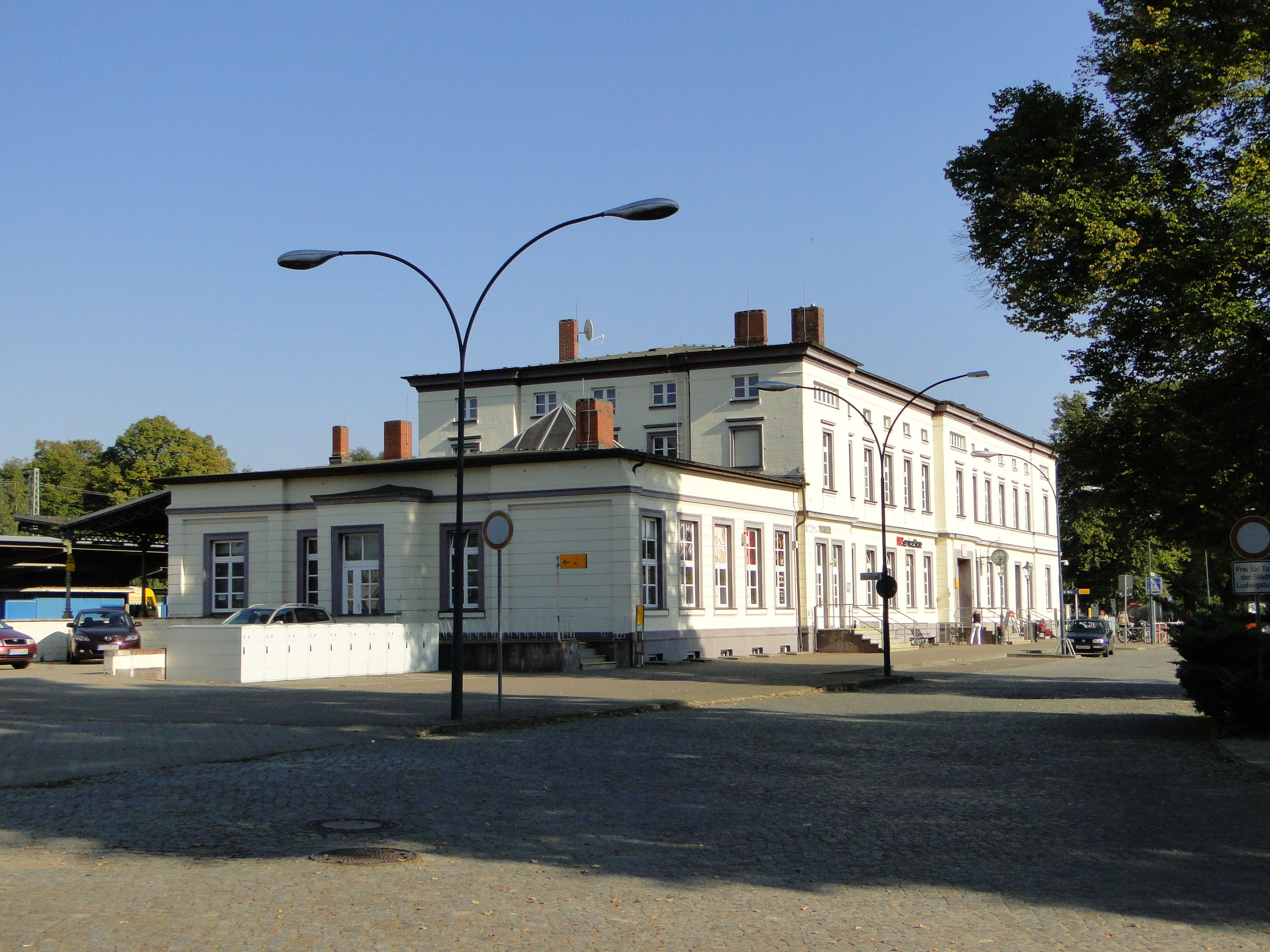 Train station in Ludwigslust, district Ludwigslust-Parchim, Mecklenburg-Vorpommern, Germany